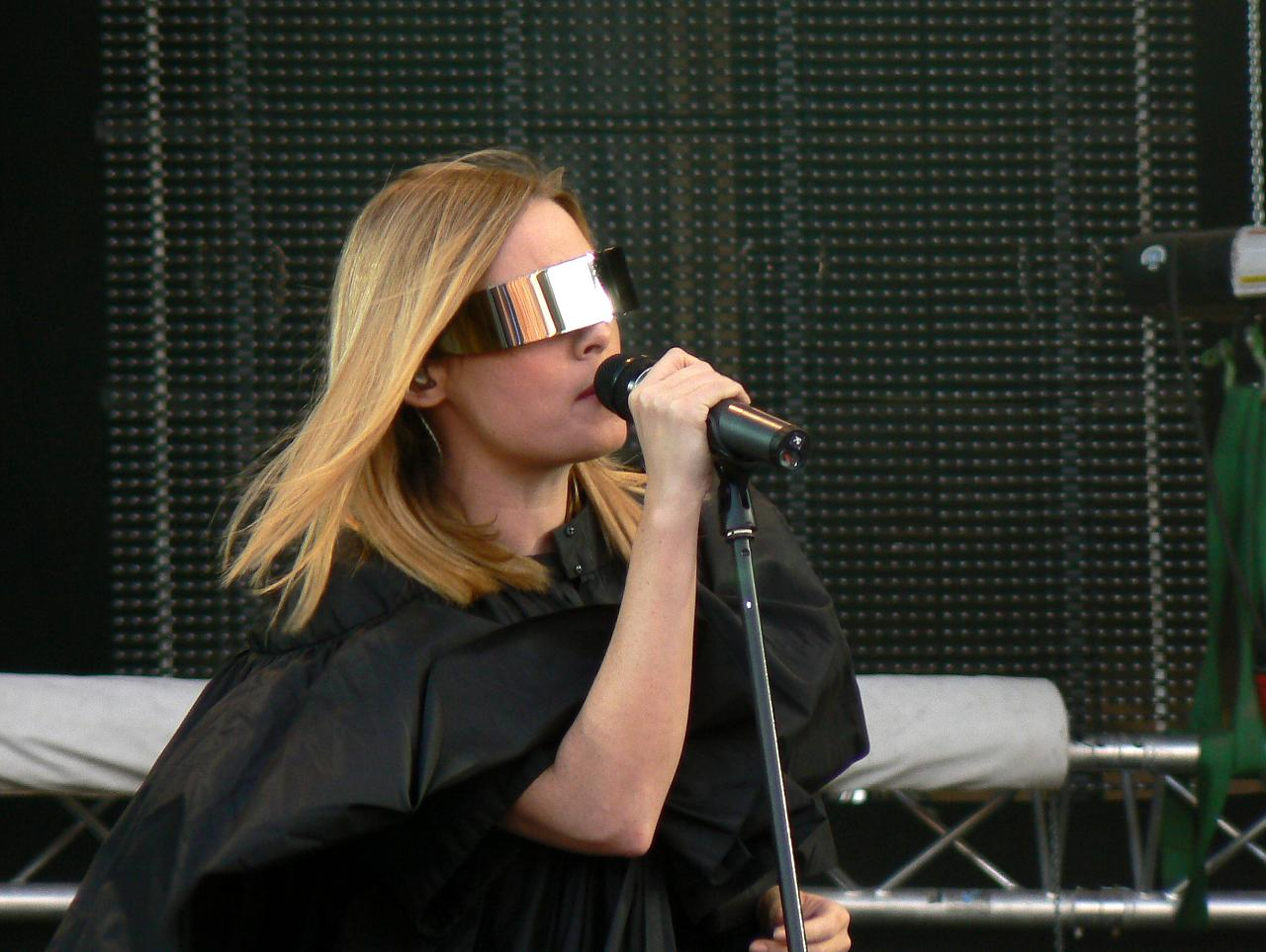 Sziget Festival @ Óbudai Island, Budapest, Hungary on August 11-17, 2008